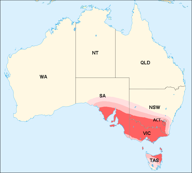 Map of the 2009 Southern Australia heat wave affected area. Based on the Australia locator map. Made by myself in mspaint.